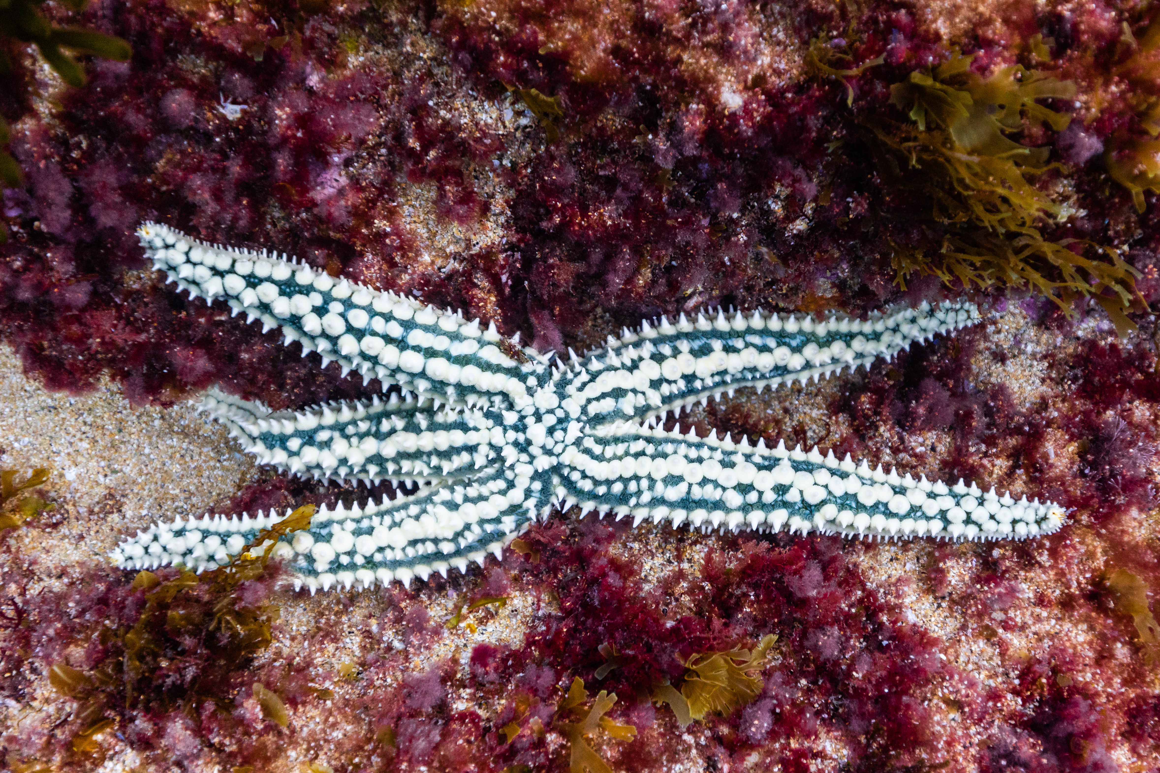 Spiny starfish (Marthasterias glacialis), Mouro Island, Santander, Spain